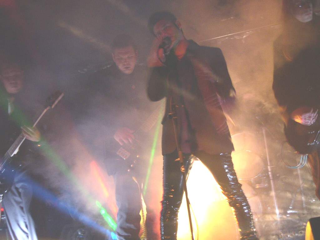 Bitter Grace performing at Club Rare in New York City on June 25, 2005 @ the 150th party for Legends Magazine. The theatrics of the band's live sets have grown over the years. Seen in the image from left to right: Brandon Tubby (guitar), Marcus Pan (bass), Gustavo Lapis Ahumad (vocals) and Thad Jasonis (guitar).